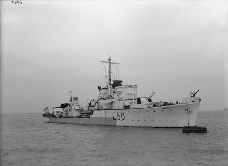 HMS Bleasdale Underway on the Medway.